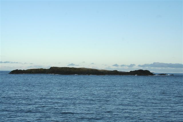 The Rumble